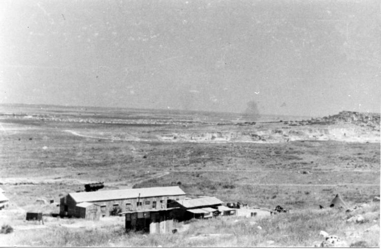 Nahshonim 1950